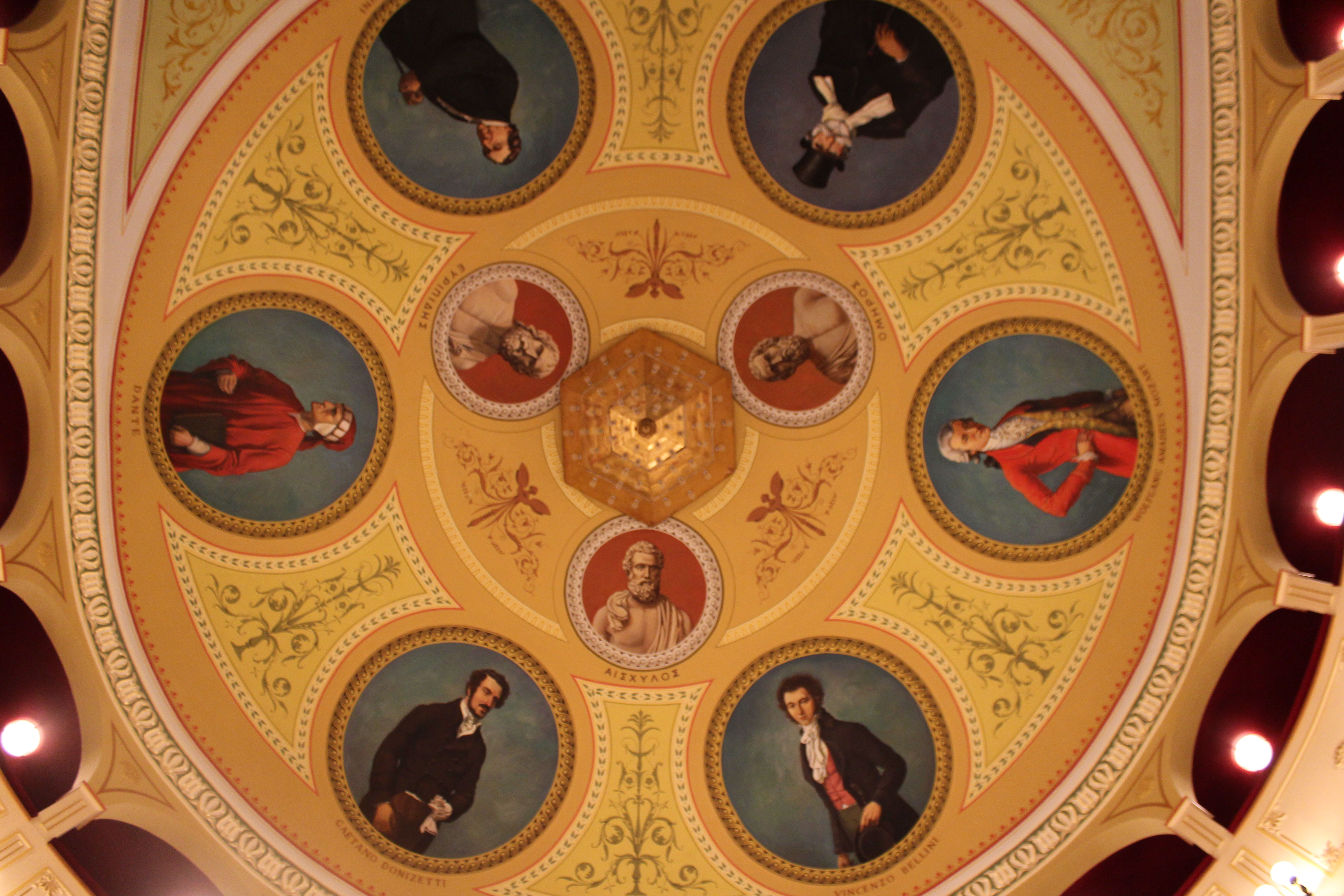 The Ceiling of the Apollon Theater in Ermoupolis